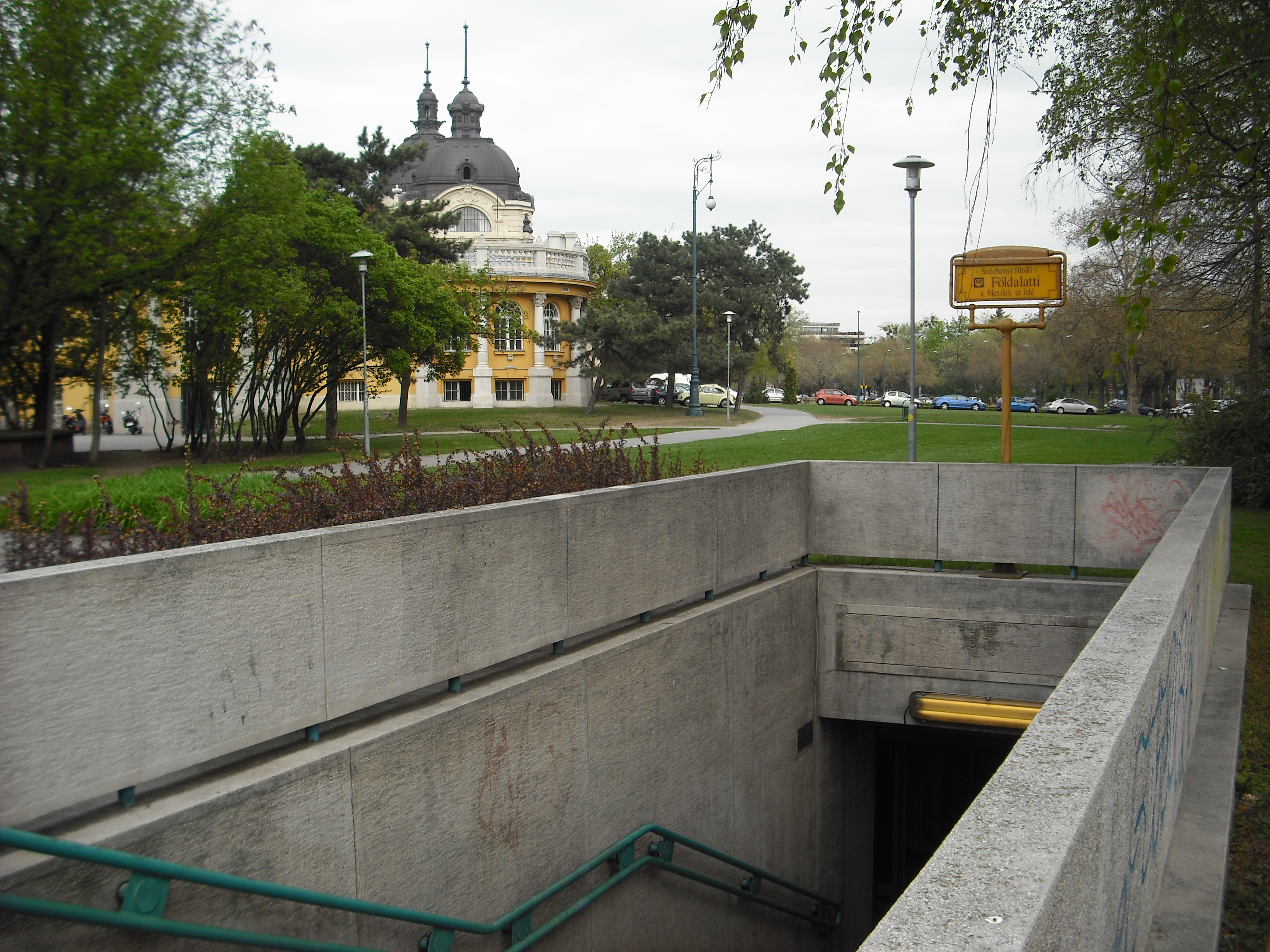 Outside the station Széchenyi fürdő, on Budapest Metro system.